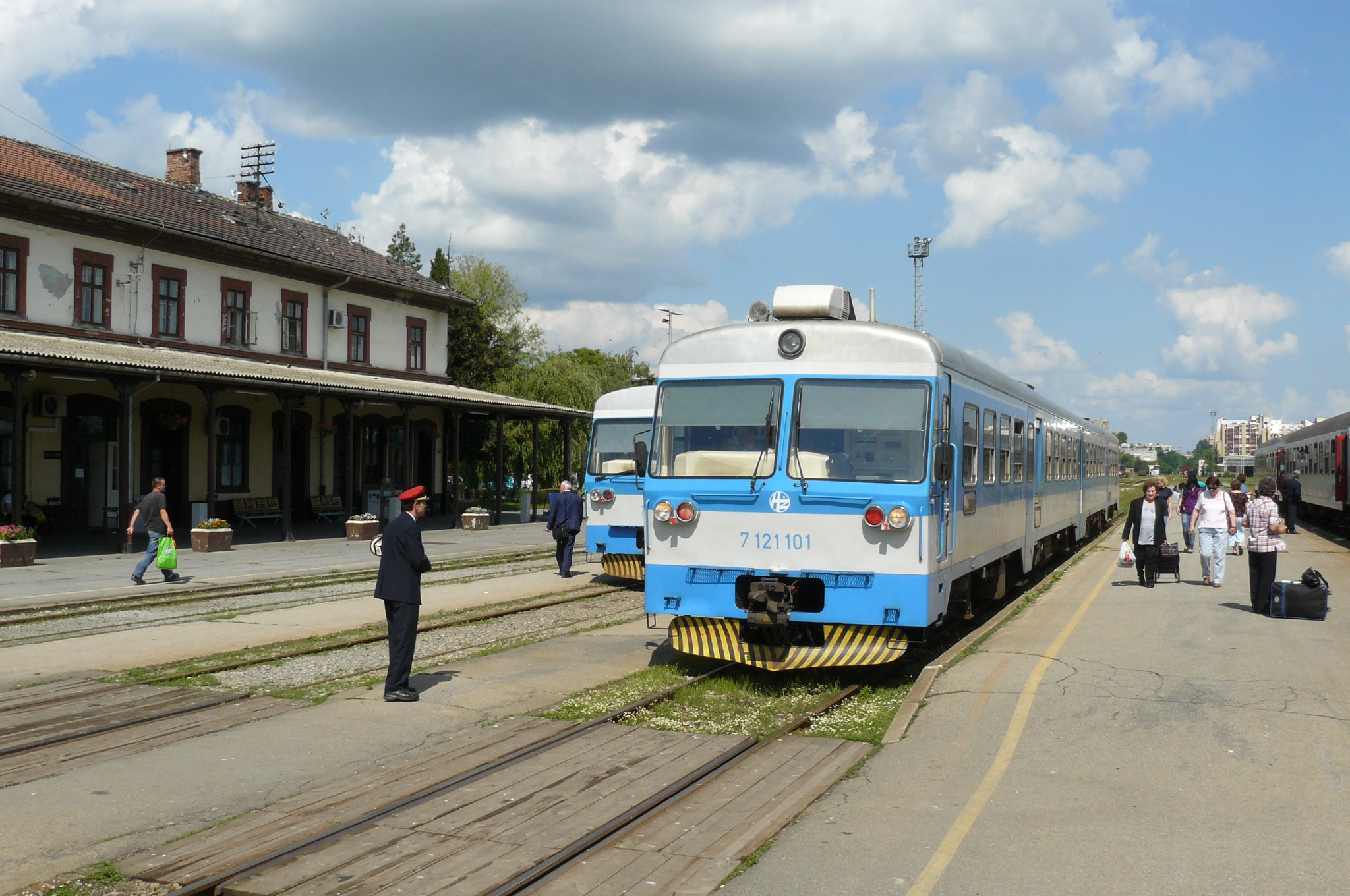 Osijek Train Station.